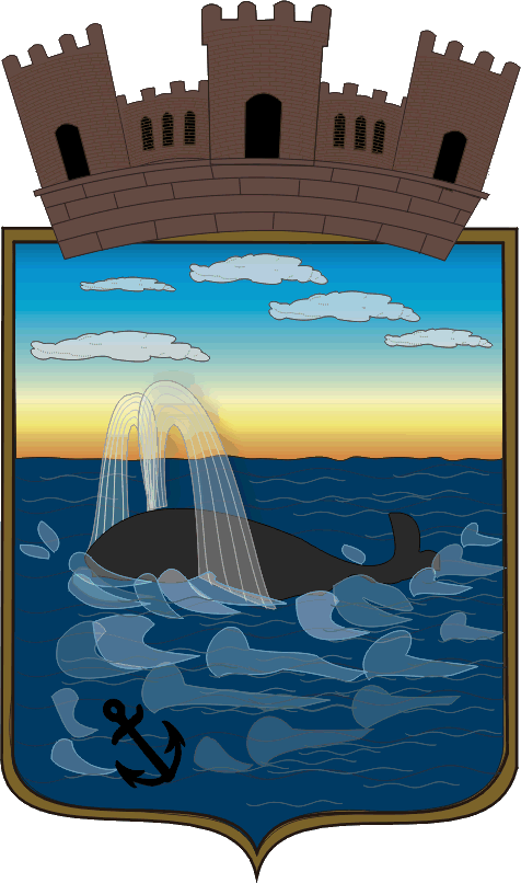 Coat of Arms of the Department of Maldonado, Uruguay Drawn by: Jordevi